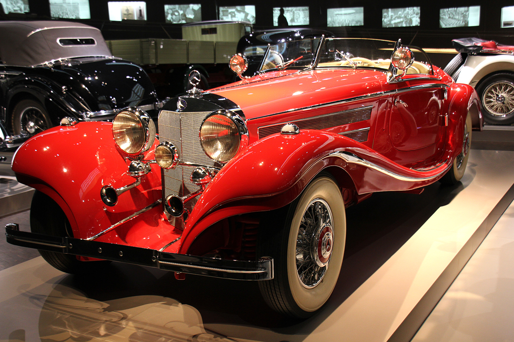 Visit at the Mercedes-Benz Museum, 09.04.2011